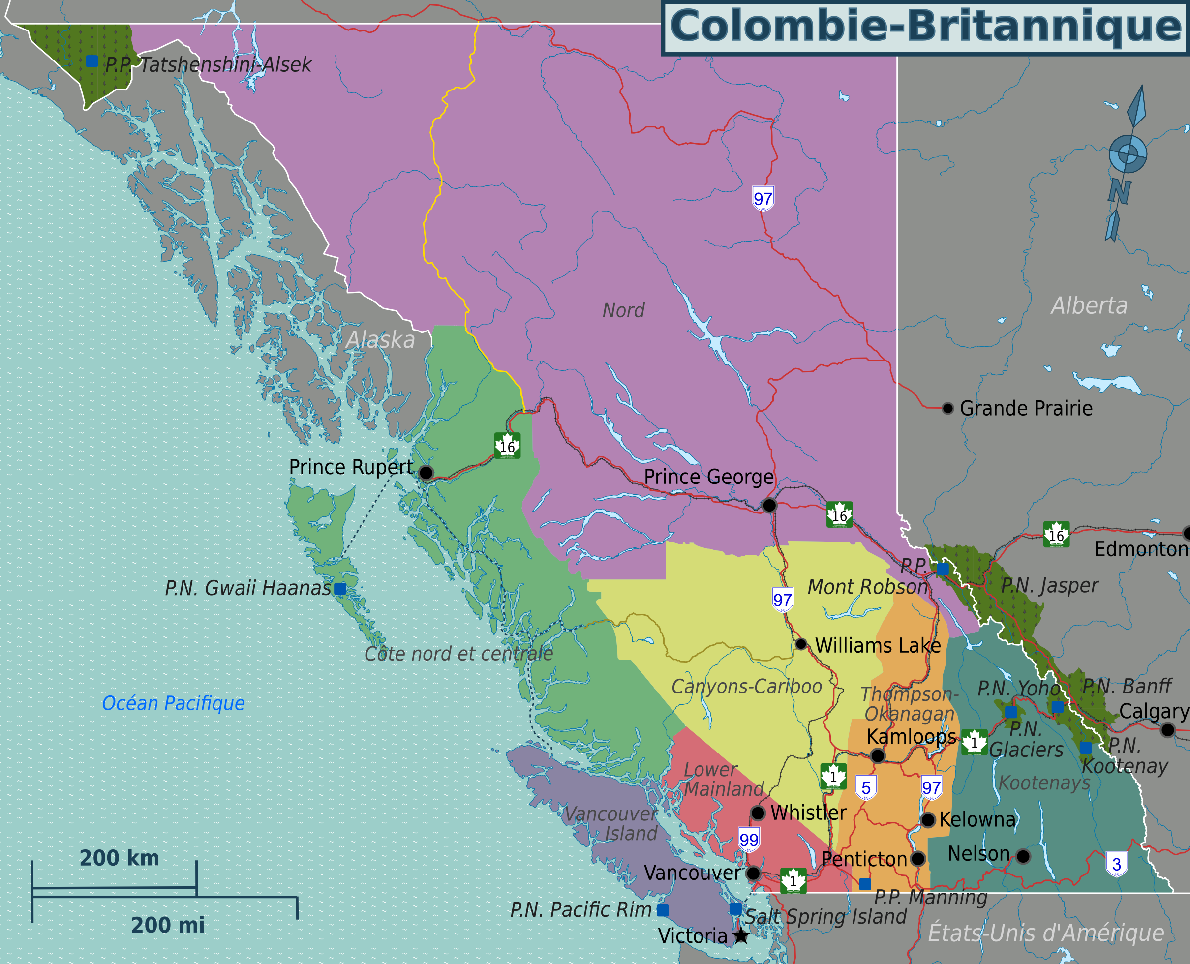 French Wikivoyage-style map of British Columbia.